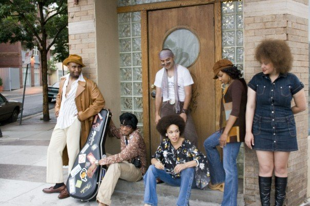 Slam Nuba 2007. Corner of Welton St. and Washington St. in the Five Points neighborhood of Denver, Colorado.